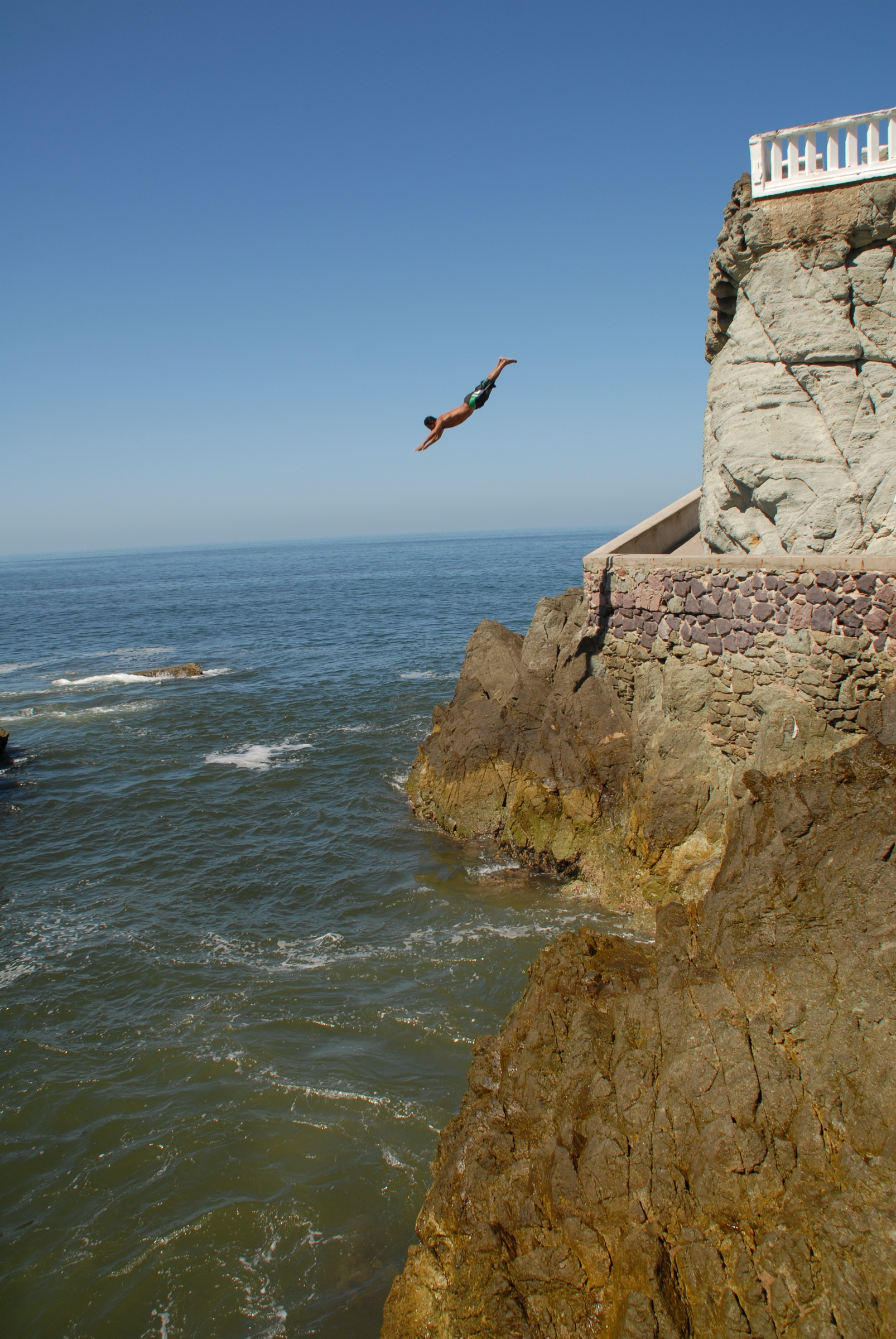 Cliff Diver, MAZATLAN